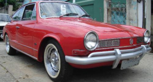 Brazilian Karmann-Ghia TC, 3/4 front view